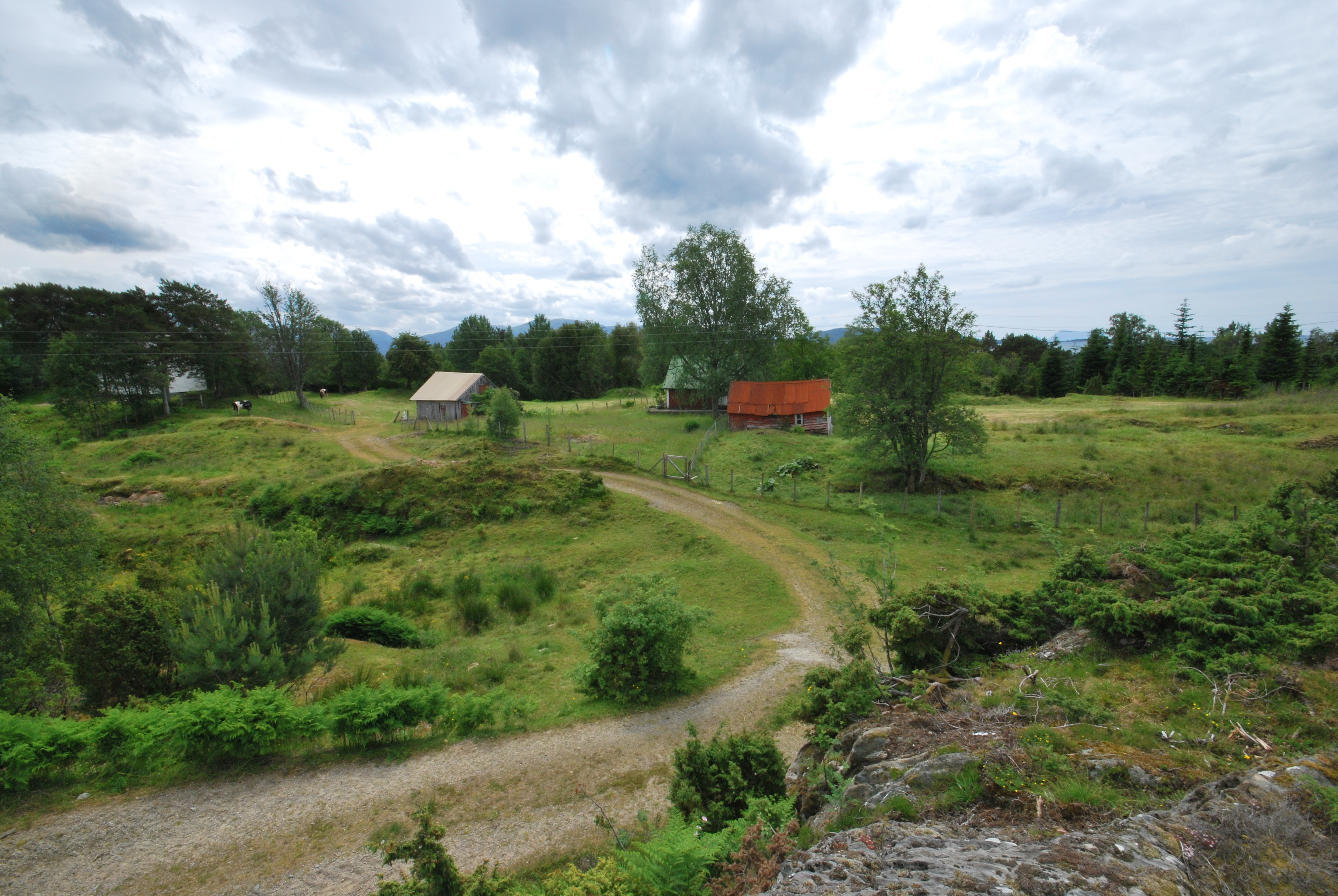 Landscape from Stavøy island, Flora kommune, Norway